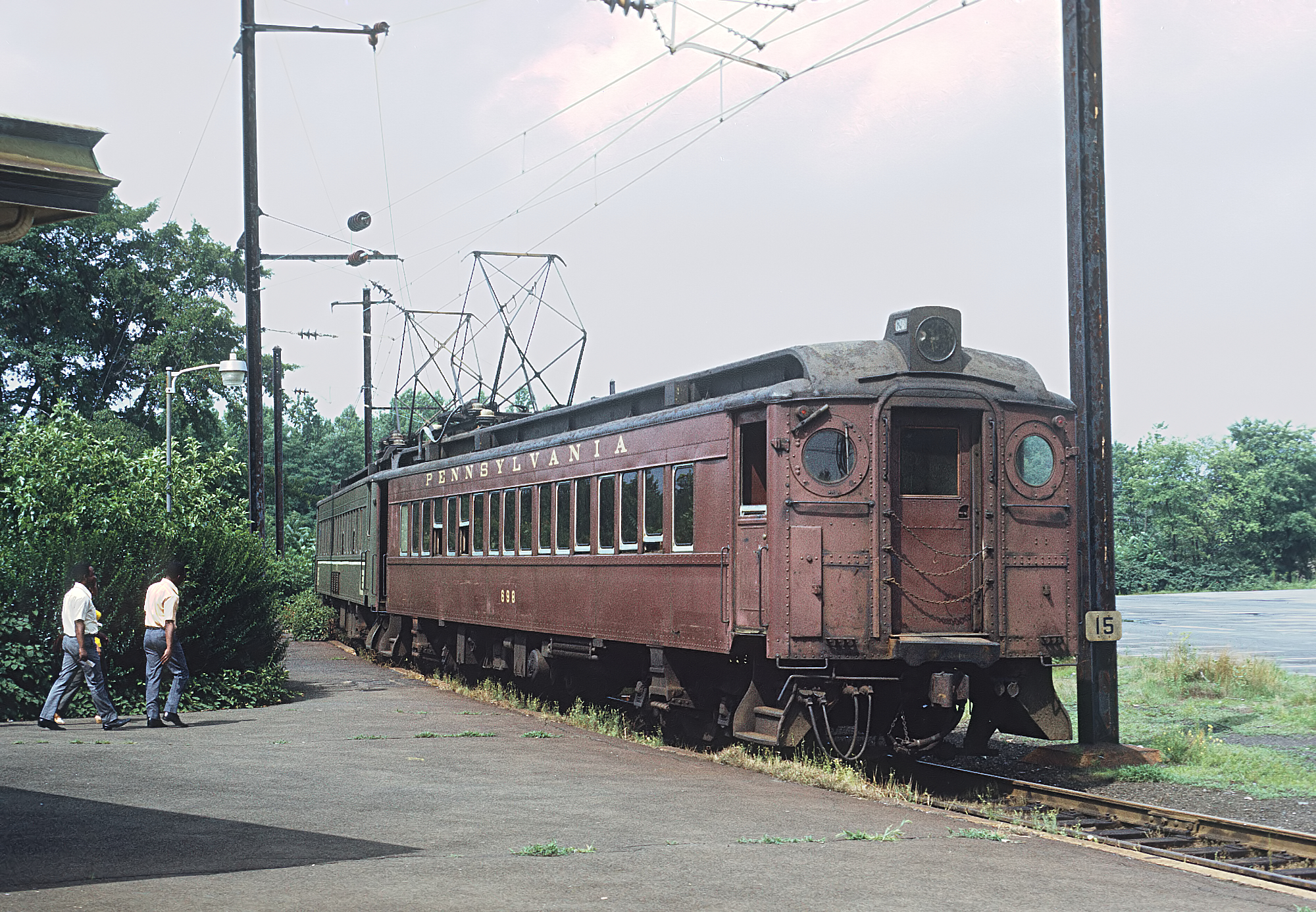 A Roger Puta Photograph